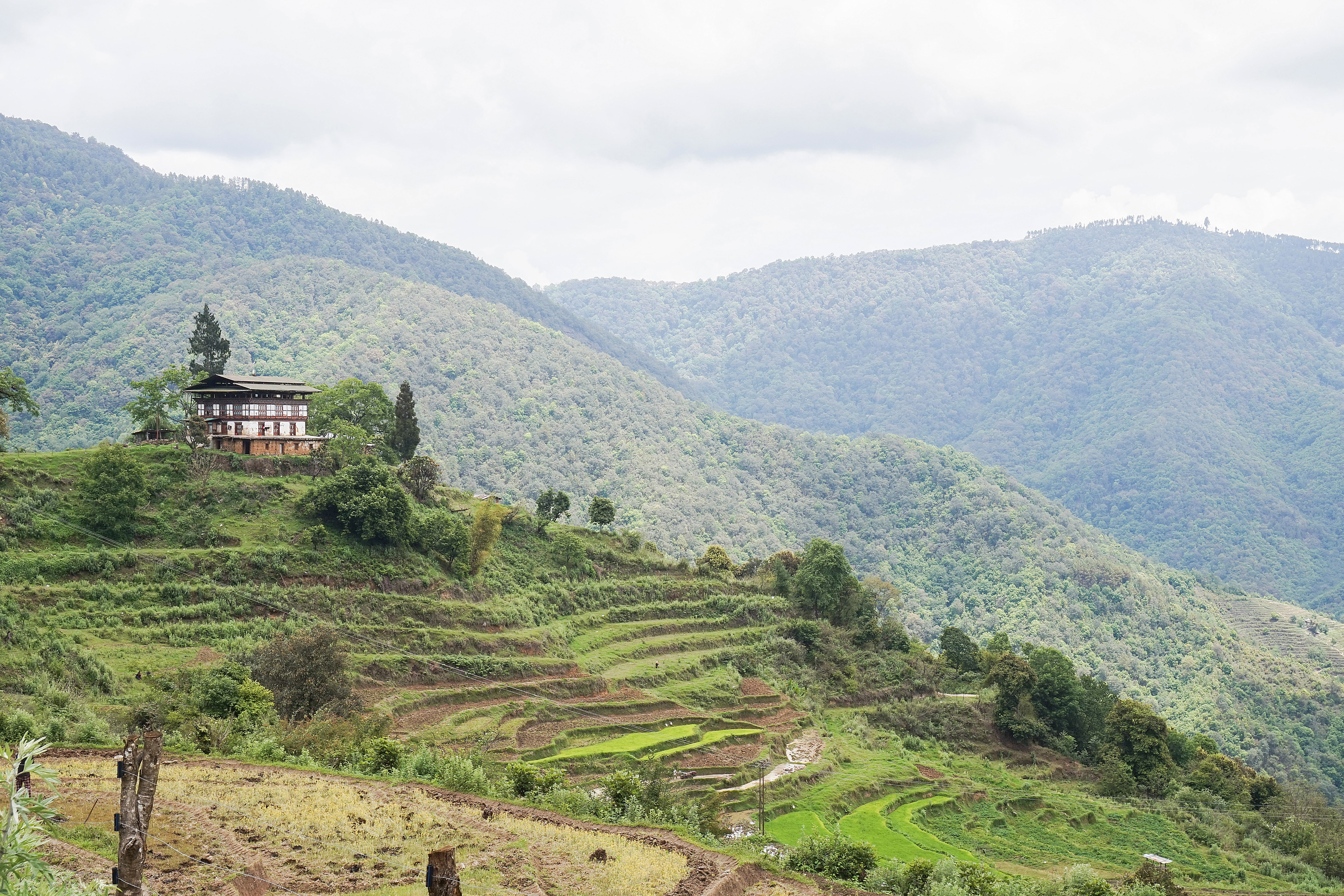 Landscape on Thimphu-Punakha highway, Bhutan